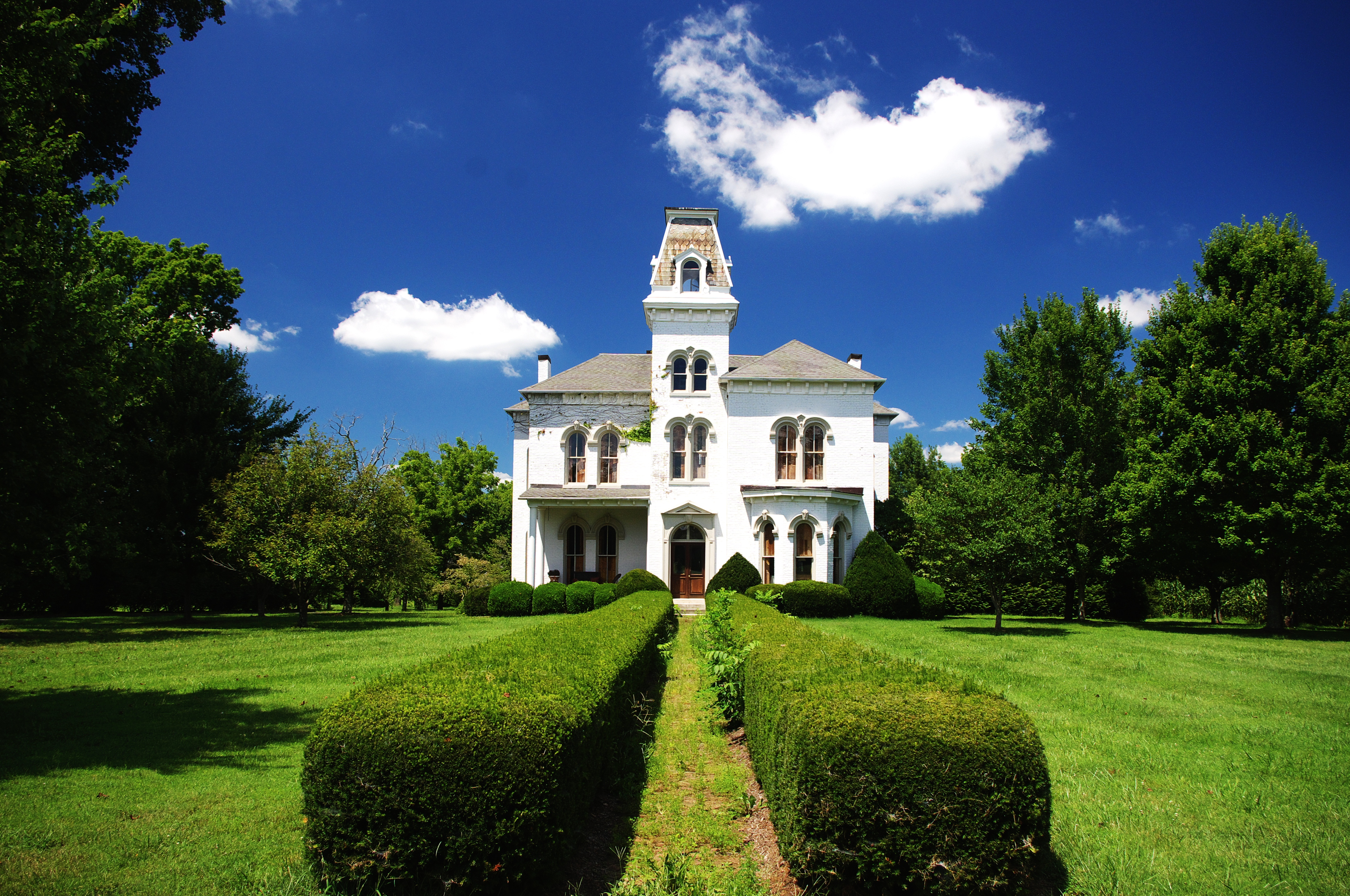 Hightower Place, also called the Haddox House, in Allensville, Kentucky, United States. This house is listed on the National Register of Historic Places as a contributing property in the Allensville Historic District.